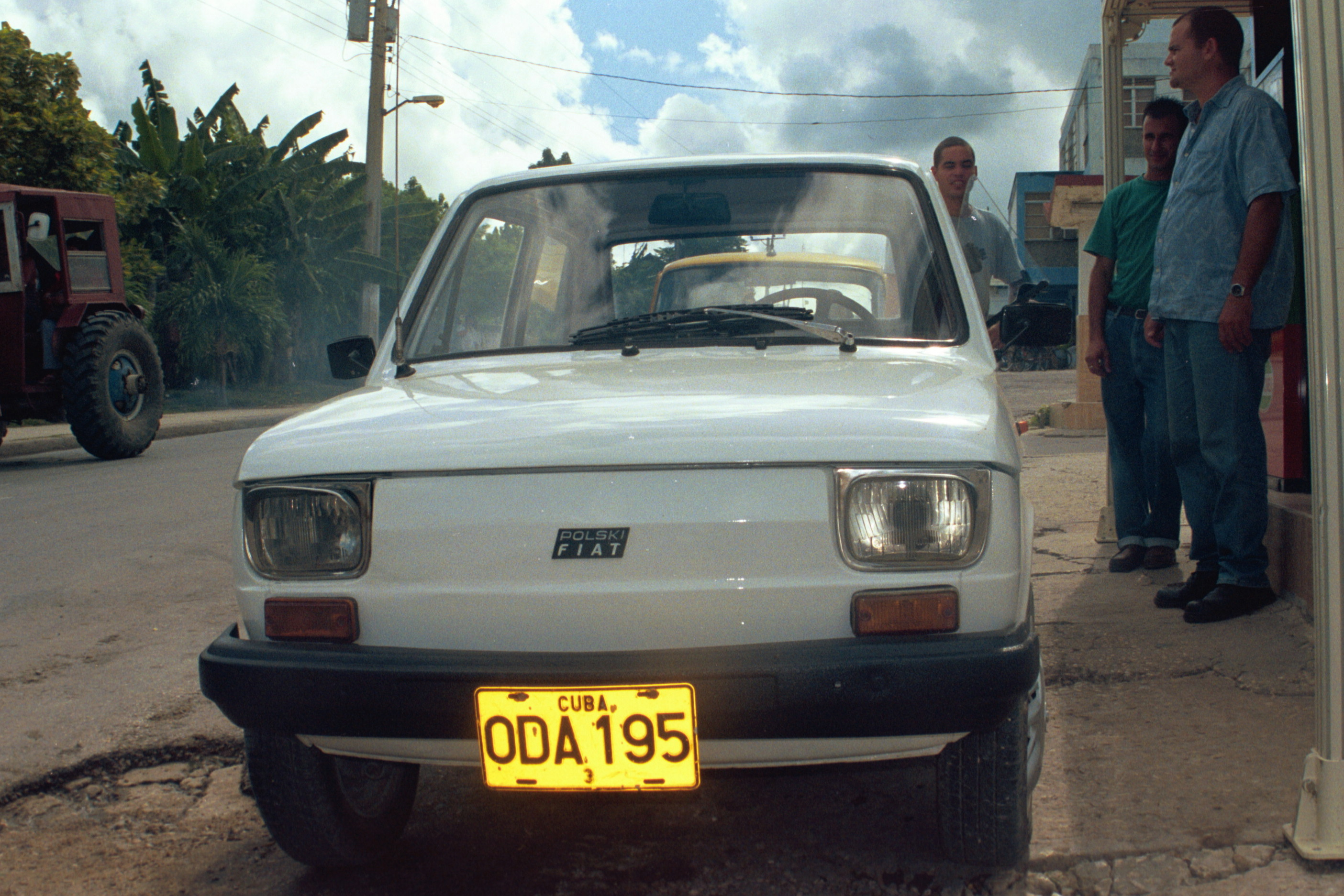 Polski FIAT 126p 650 (Cuba)